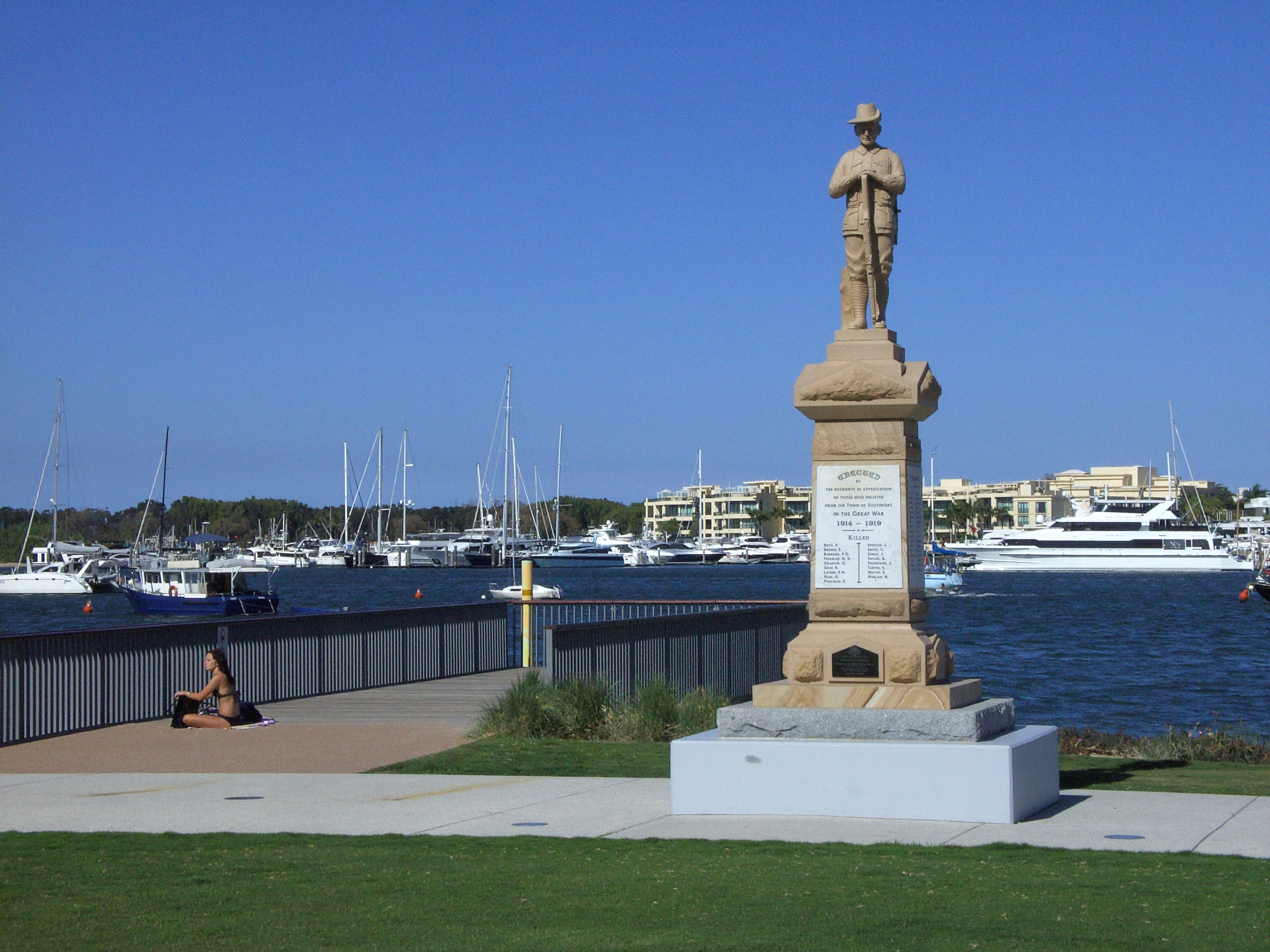 Southport (from 2010) - Anzac memorial statue, relocated 2010. Gates separate.